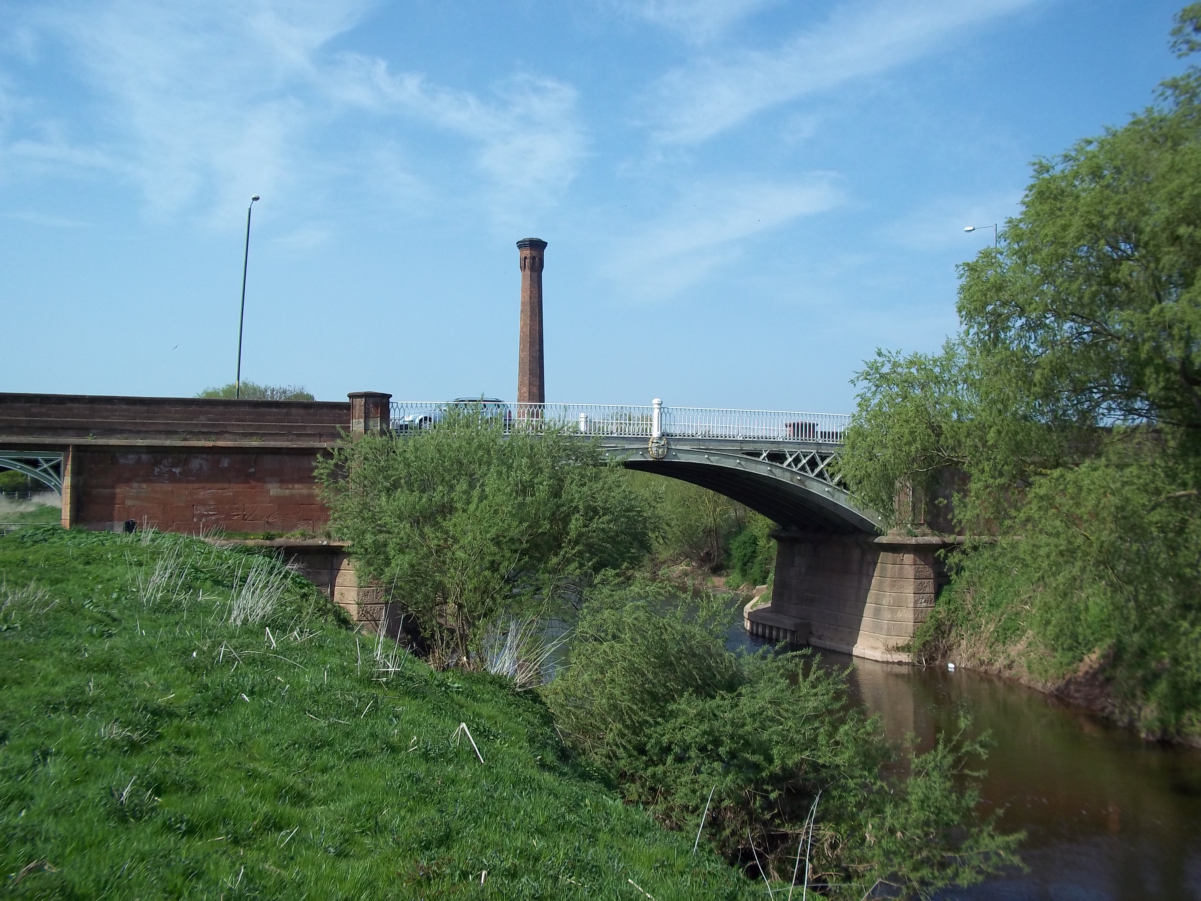 Picture taken by Ardg08